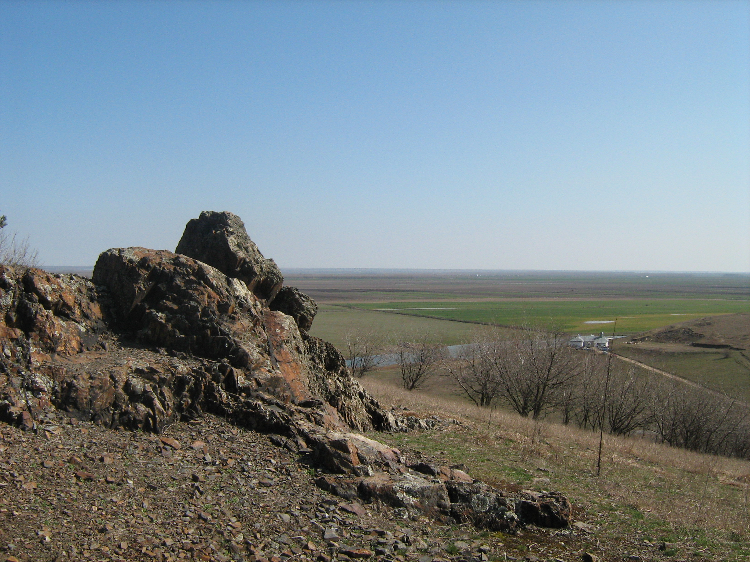 Dinogetia Church wiewed from Macin Mountains